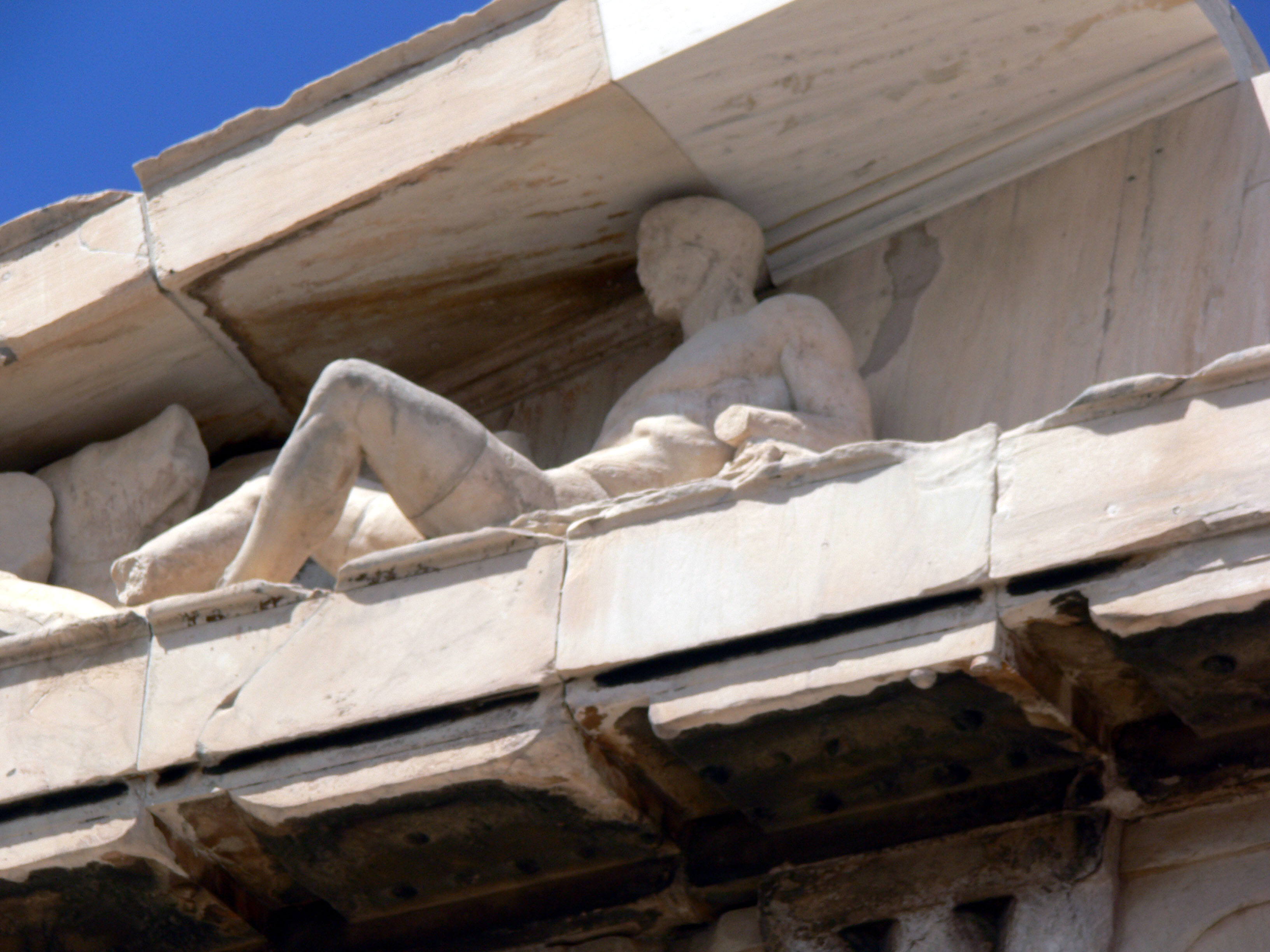 Detail vom Parthenon.